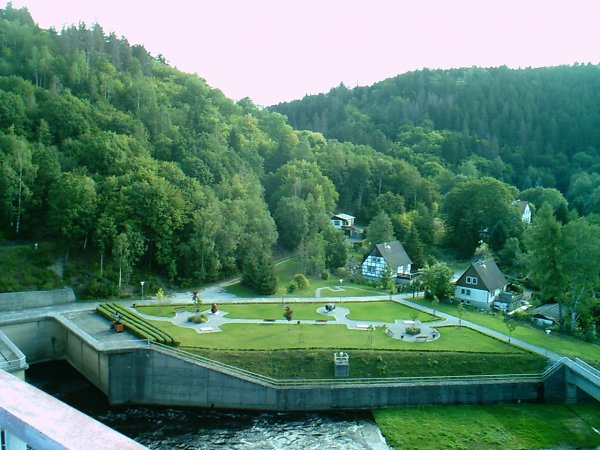 Equipment part at Wendefurth Dam, Harz mountains, Germany